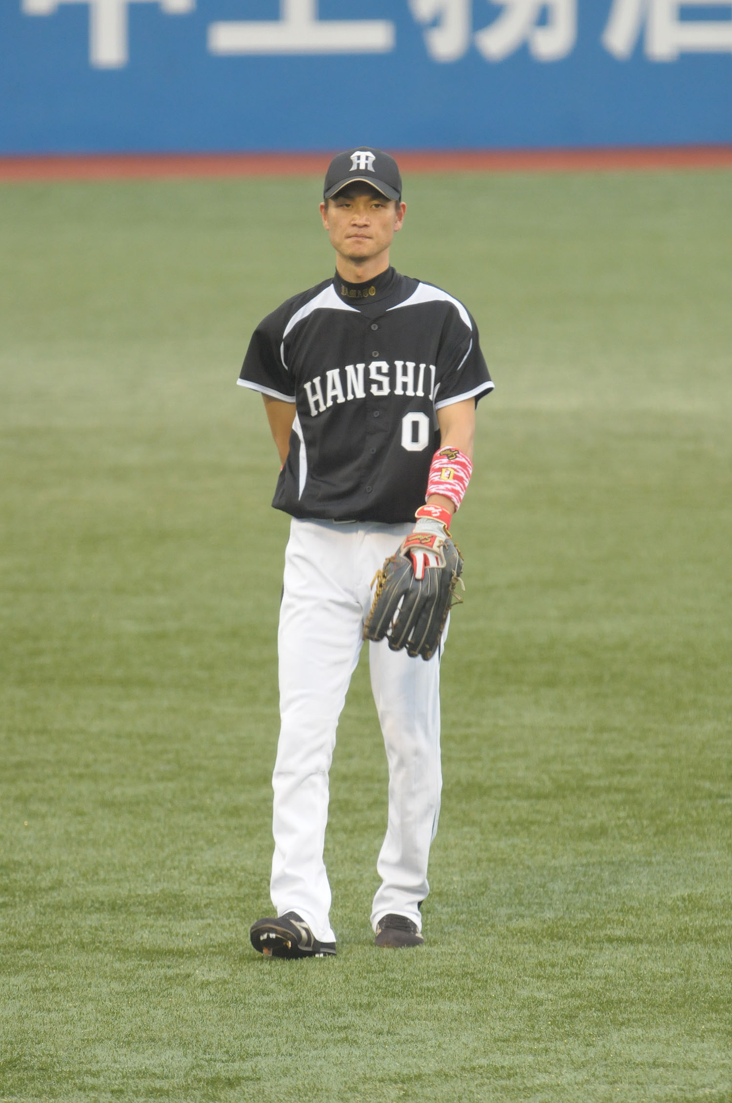 Yamato Maeda, infielder of the Hanshin Tigers, at Meiji Jingu Stadium.